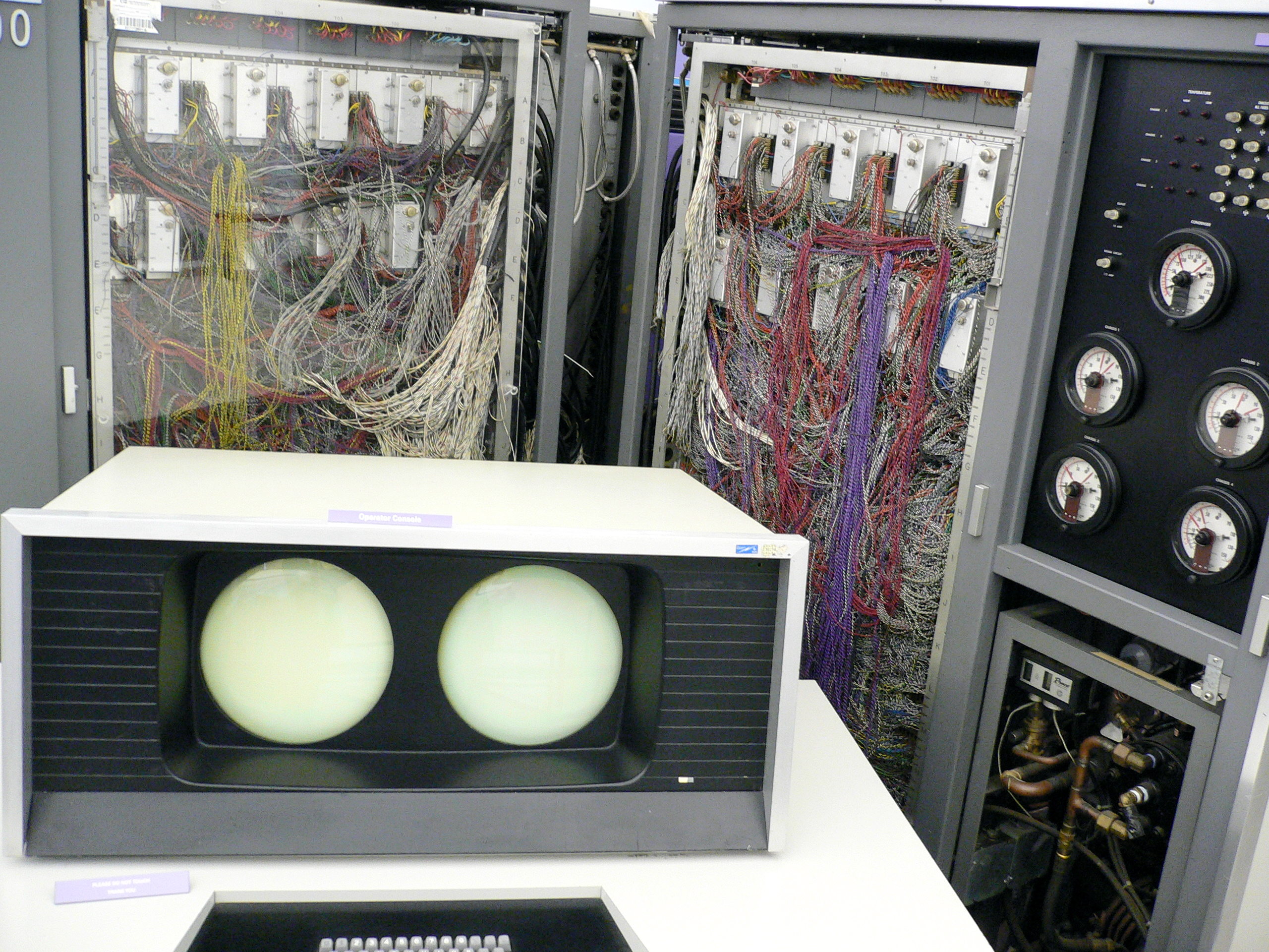 Designed by Seymour Cray, the CDC 6600 was the fastest machine in the world from 1964-1969. $10 million for 10 MLOPS.Personable Computer